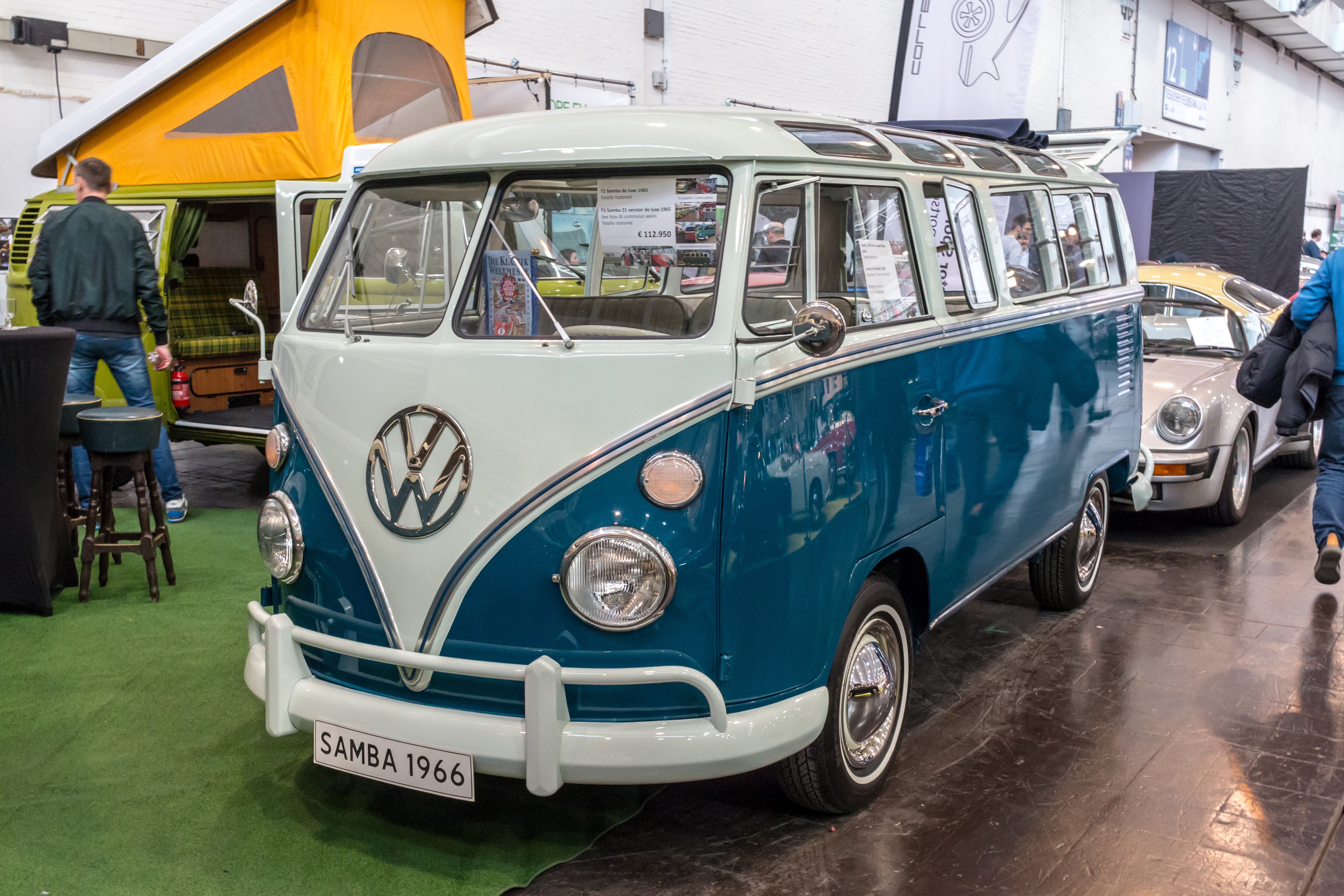 Techno Classica 2018, Essen